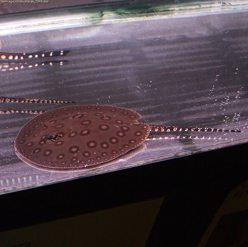 オレンジスポットタンスイエイ Ocellate river stingray Species Potamotrygon motoro Familia Potamotrygonidae Location; Suma Aqualife Park, KOBE, Japan Other photos; Copyright OpenCage